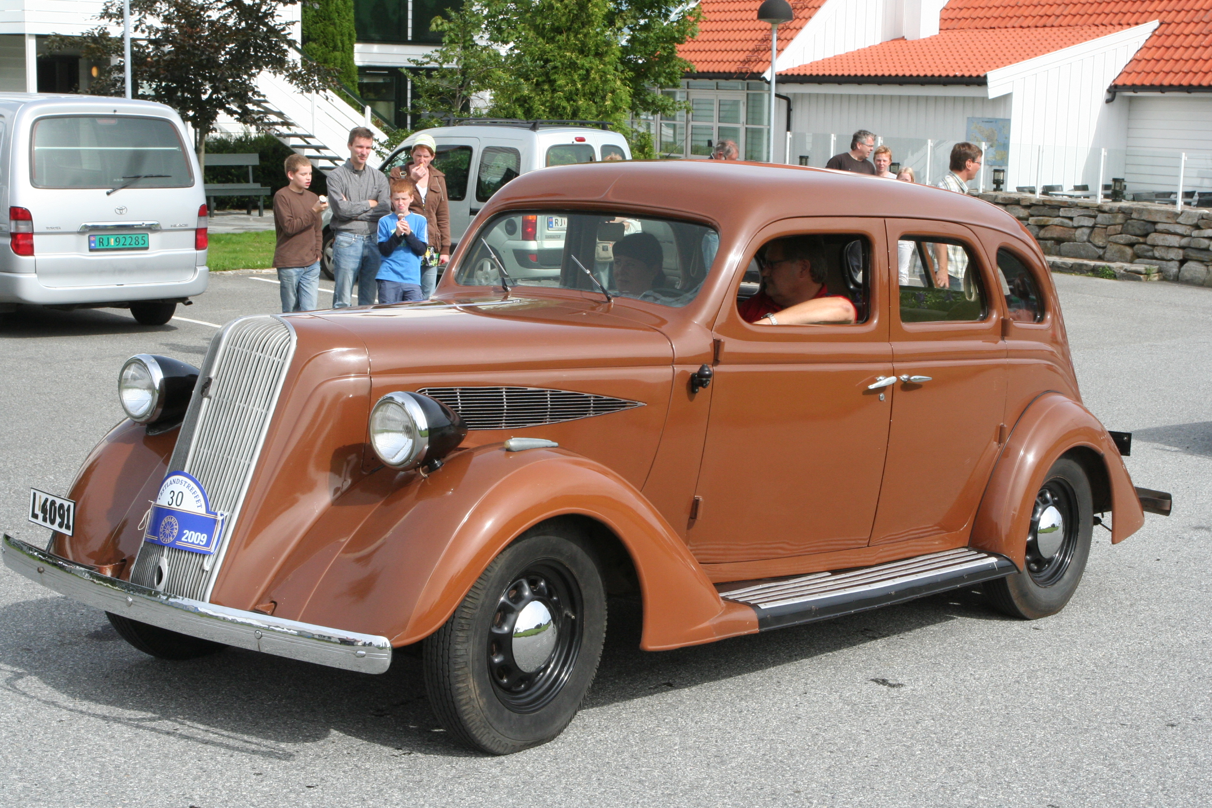 Captured at a Veteran-Car meeting on August 1, 2009 in Utstein, Norway. Cees was the owner at the time.